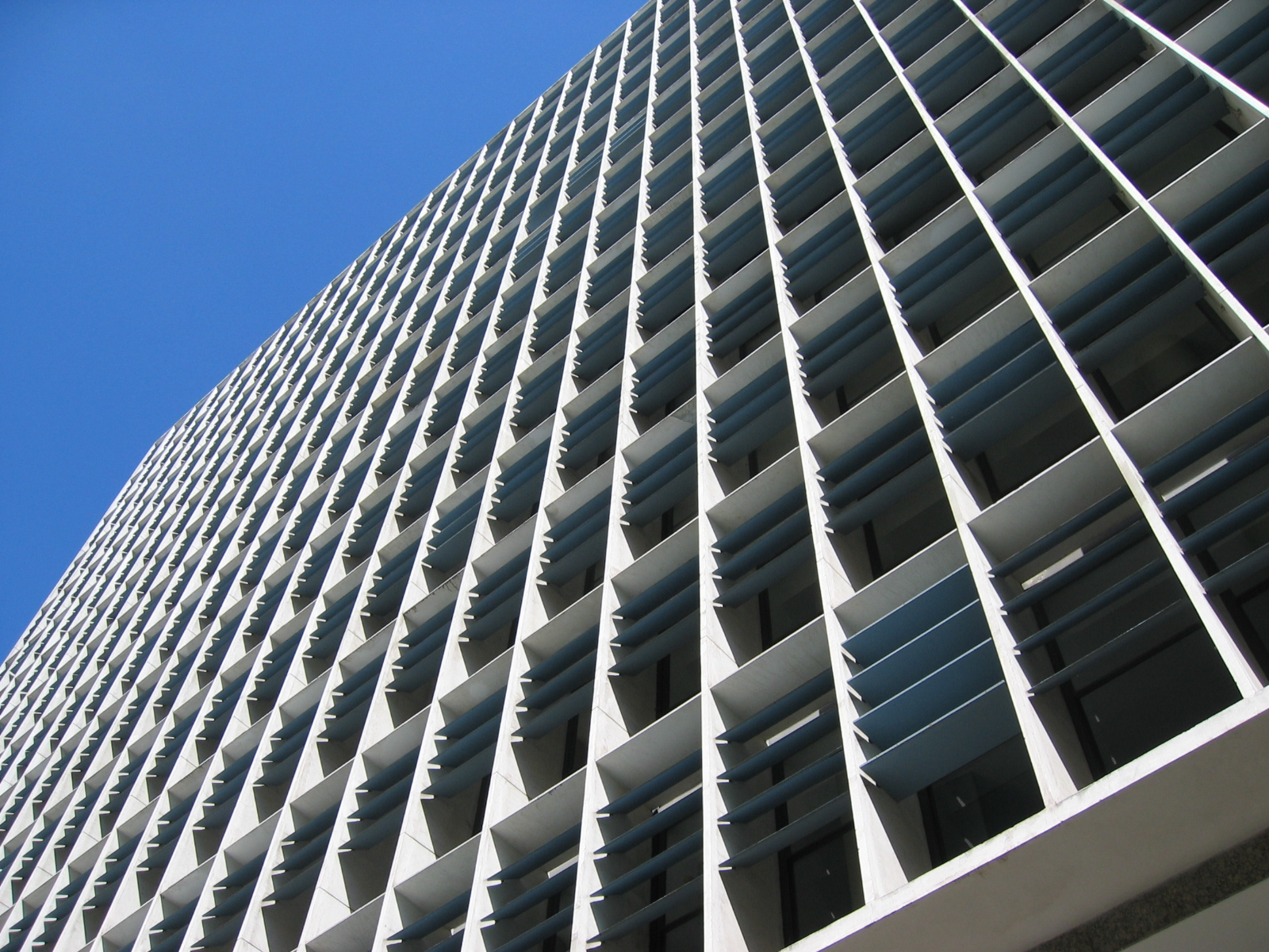 North facade of the Ministry of Education and Health Building (Edifício Gustavo Capanema), with movable alluminum brise soleil elements. Modernist building (design 1936), located in downtown Rio de Janiero.